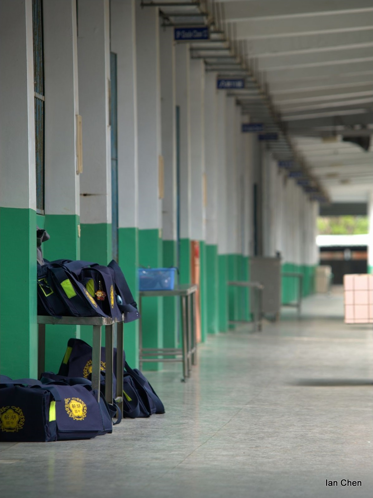 The corridor of Hsin-Hu Junior High School in Hsinchu County, Taiwan.